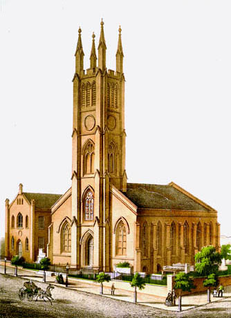 Postcard of Westminster Church in Baltimore, ca. 1857.